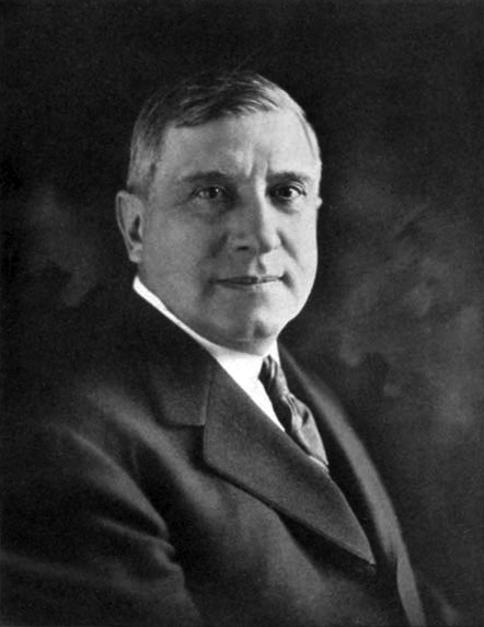 A photograph of Charles Schwab, a key figure in the management of the Carnegie Steel Company. The border around the photograph contains the inscription "To my dearest friend and 'master, ' with the sincere love of 'his boy, ' C.M. Schwab, July 24th, 1919."